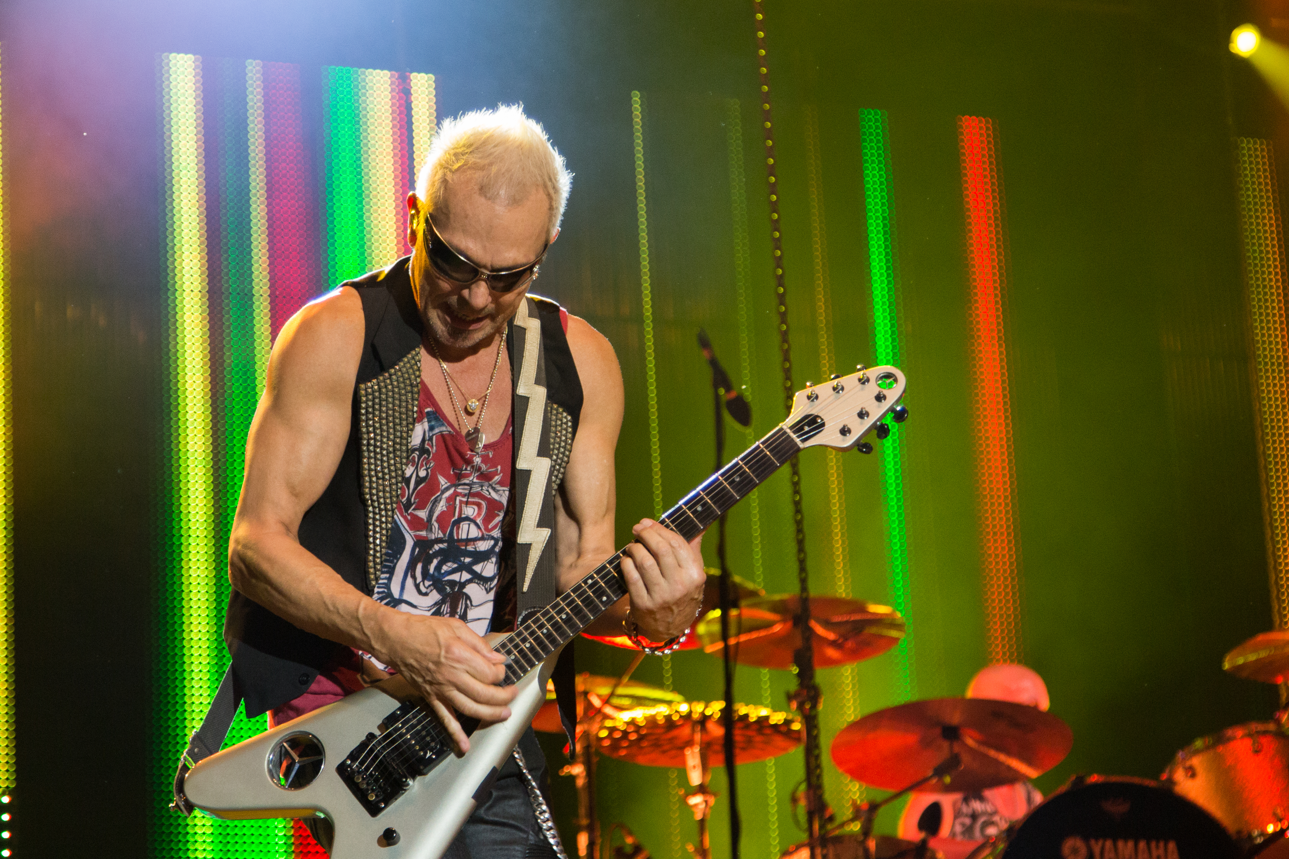 Matthias Jabs from the Scorpions at the See-Rock Festival 2014